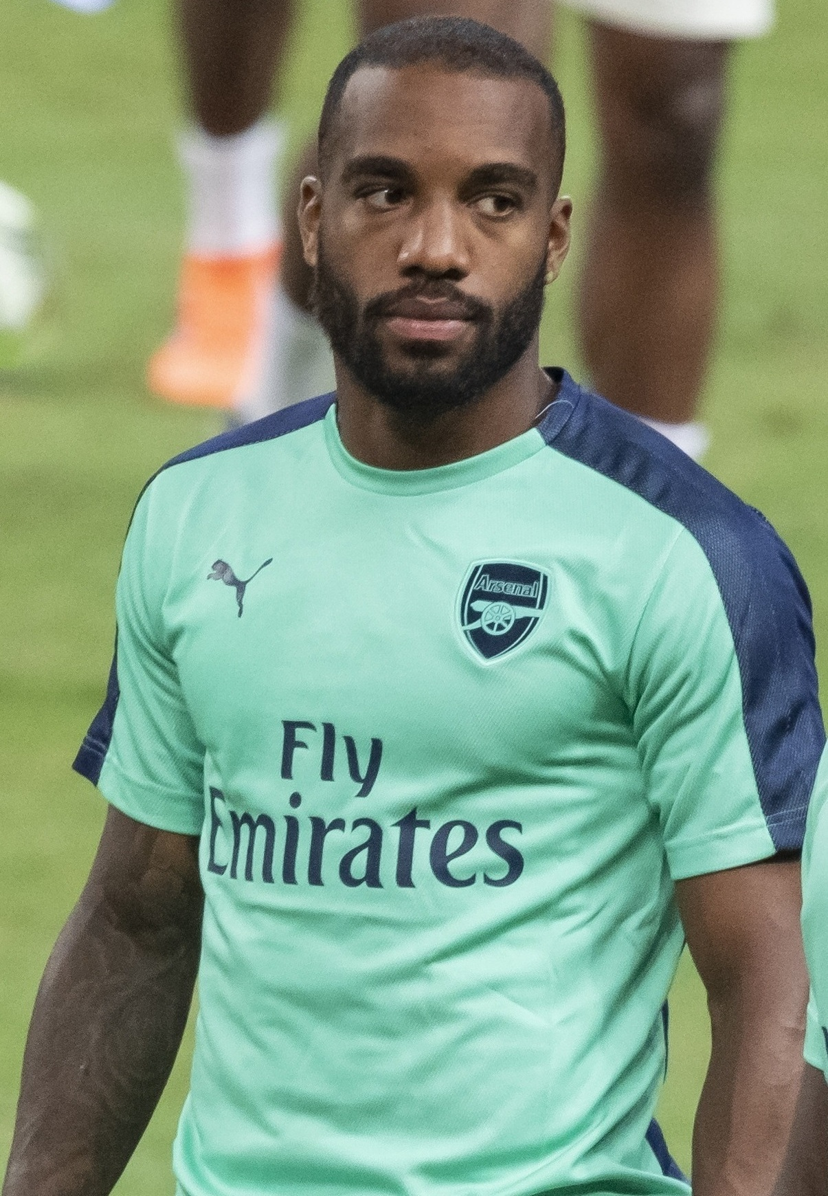 Alexandre Lacazette Arsenal v PSG International Champions Cup 2018 Singapore National Stadium